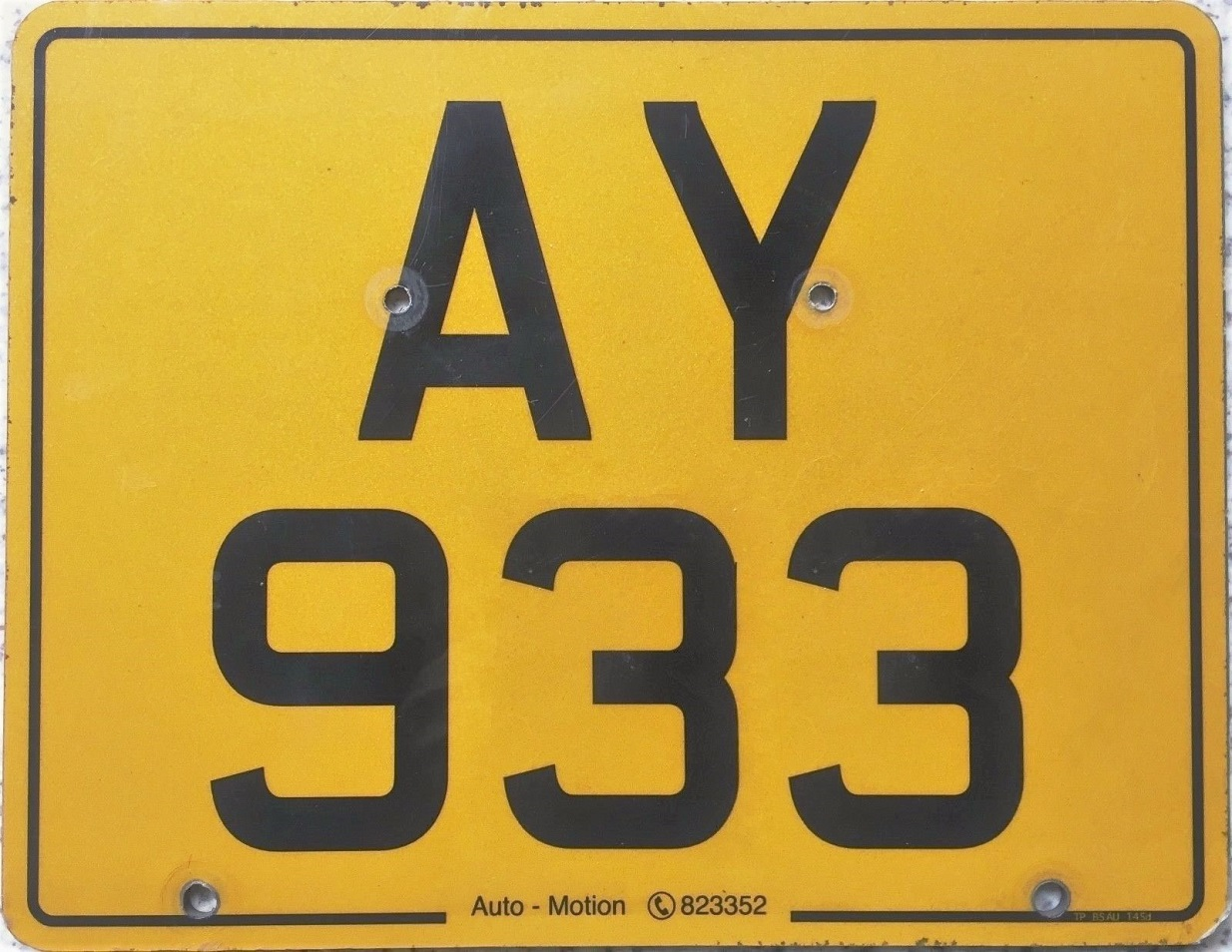 License plate of Alderney